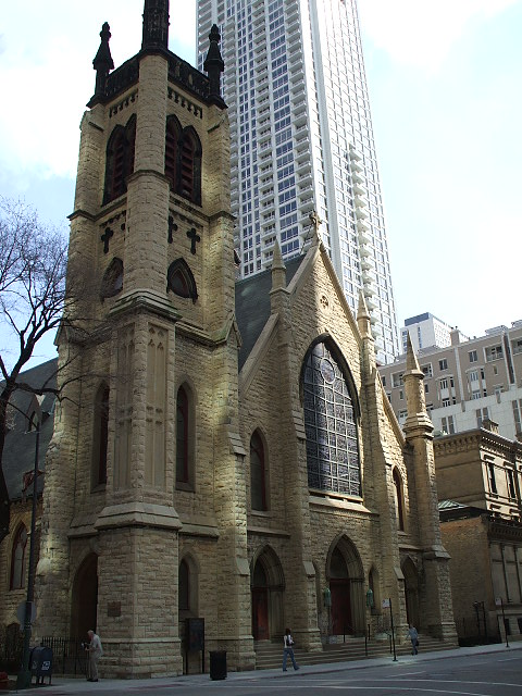 St. James Cathedral, Chicago by Gerald Farinas